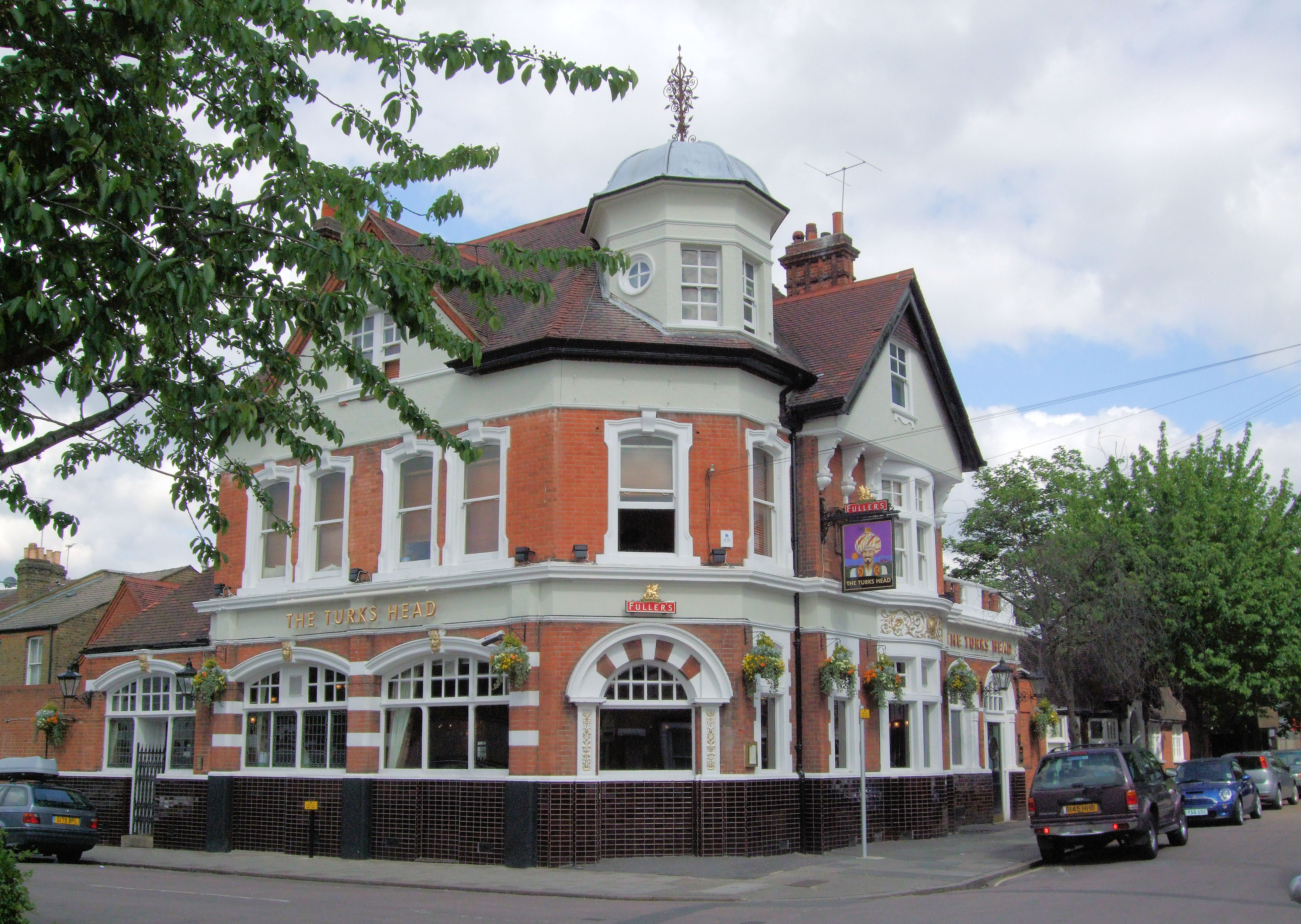 Many scenes from The Beatles? films were shot in the Twickenham area. Ringo Starr downs a pint in Twickenham?s Turks Head pub during A Hard Day?s Night.